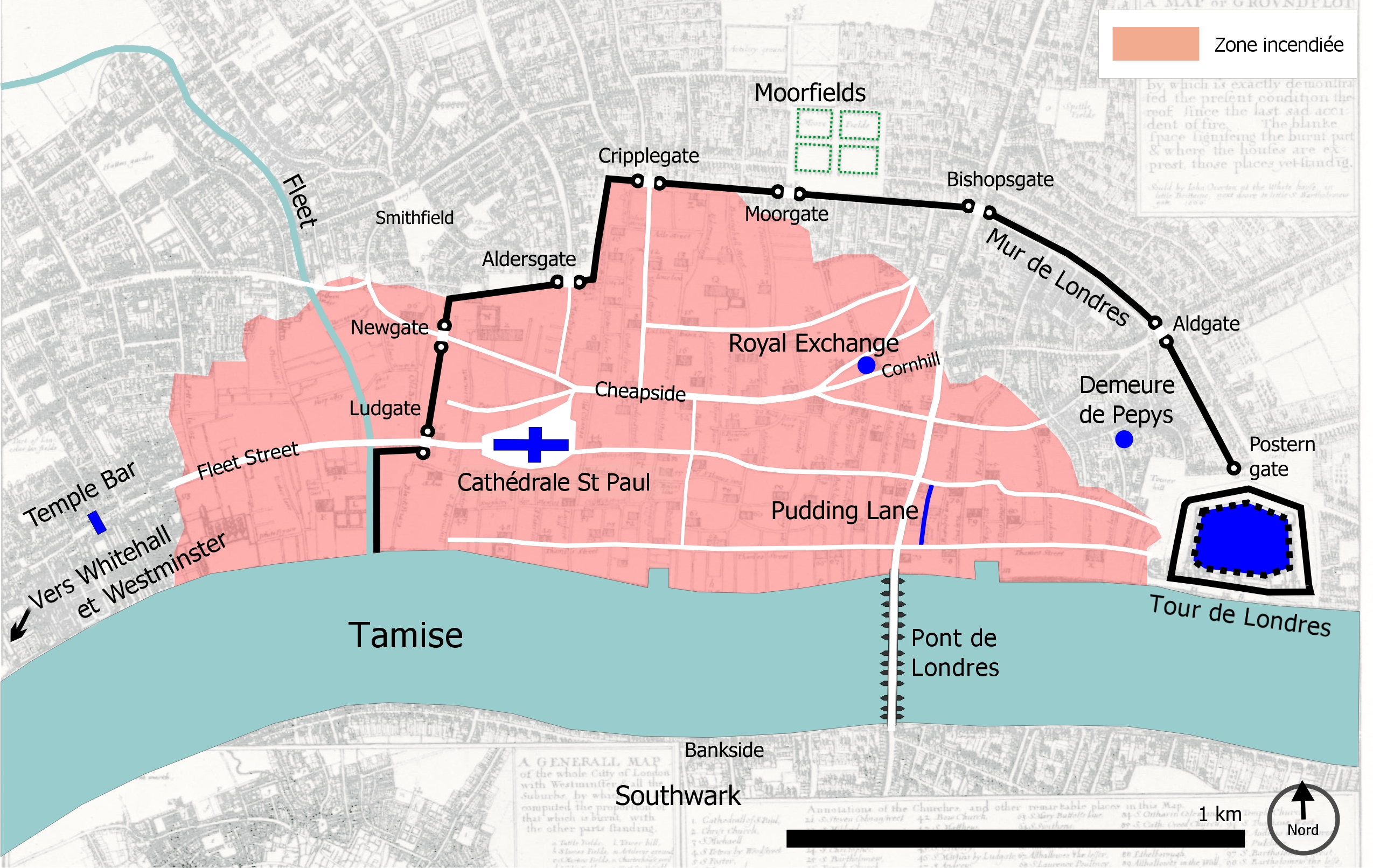 French map of central London in 1666, showing landmarks related to the Great Fire of London.